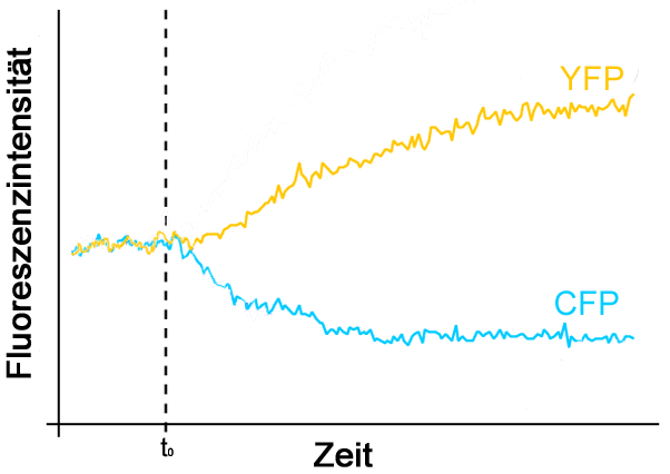 Two channel fluorescence measurement of the FRET-bases cGES-DE5 cGMP biosensor. Upon addition of the NO donor SNAP at t0 a conformational change of cGES-DE5 with an association of its YFP and CFP units can be observed that results in an increased YFP fluorescence and a decreased CFP fluorescence due to Förster resonance energy transfer. Modified from Niino Y, Hotta K, Oka K (2010). "Blue fluorescent cGMP sensor for multiparameter fluorescence imaging". PLoS ONE 5 (2): e9164. PMID 20161796. PMC: 2820094.